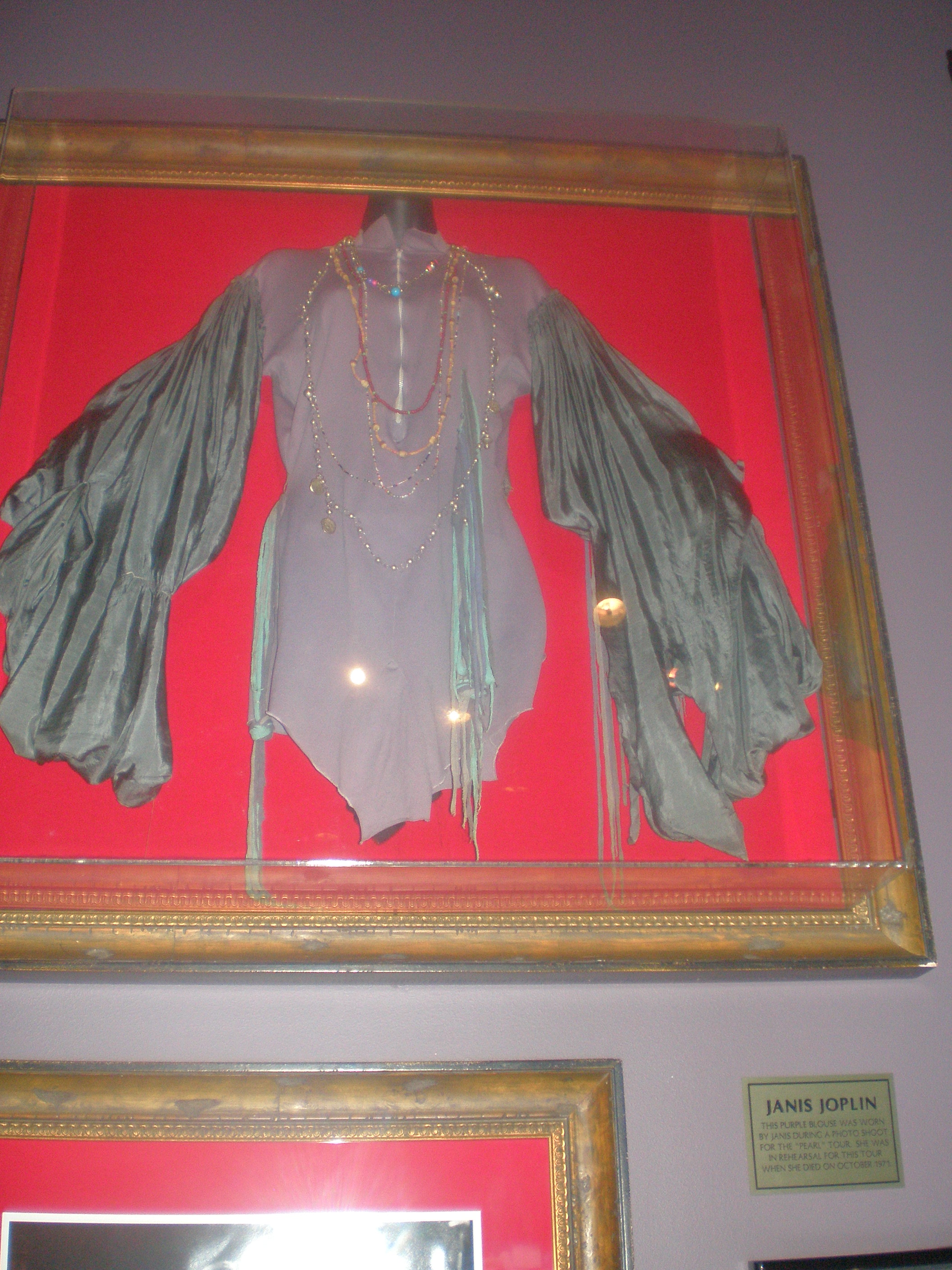 Janis Joplin's blouse, used in 1971 photo shoot, in preperation for a tour which never happened because of her death the same year.